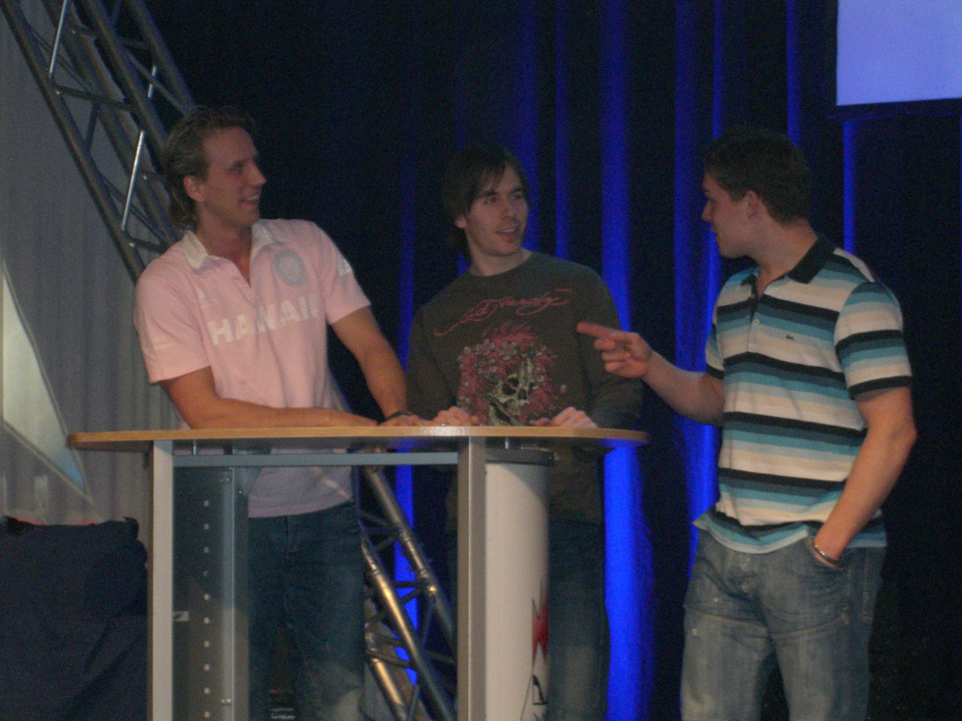 Nico Pyka, Collin Danielsmeier and Matthias Potthoff, Iserlohn Roosters